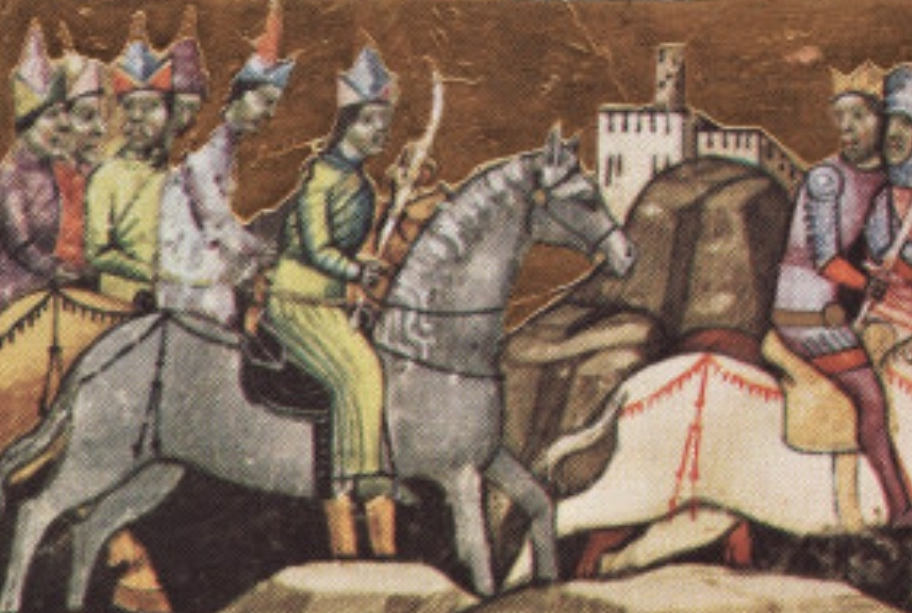 Illuminated Chronicle; Chronicon Pictum; Képes Krónika.